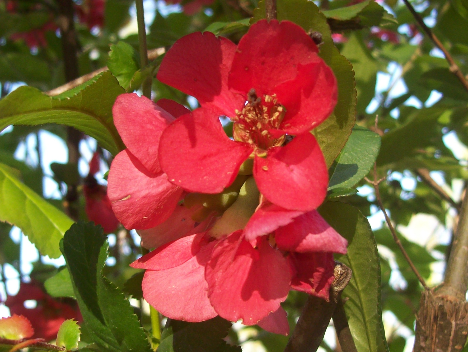 Chaenomeles Japonica